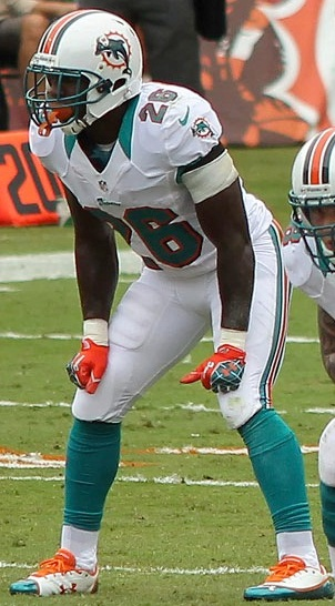 Quarterback Ryan Tannehill of the Miami Dolphins